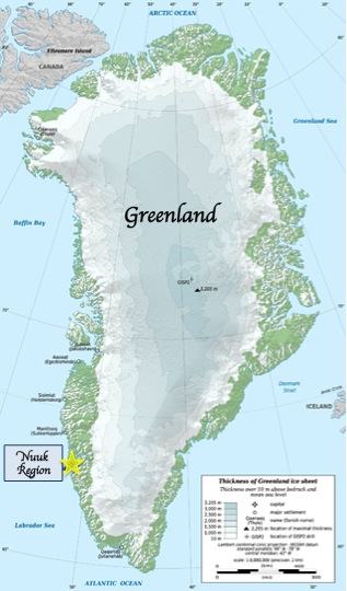 Image of the location of Nuuk in Greenland.